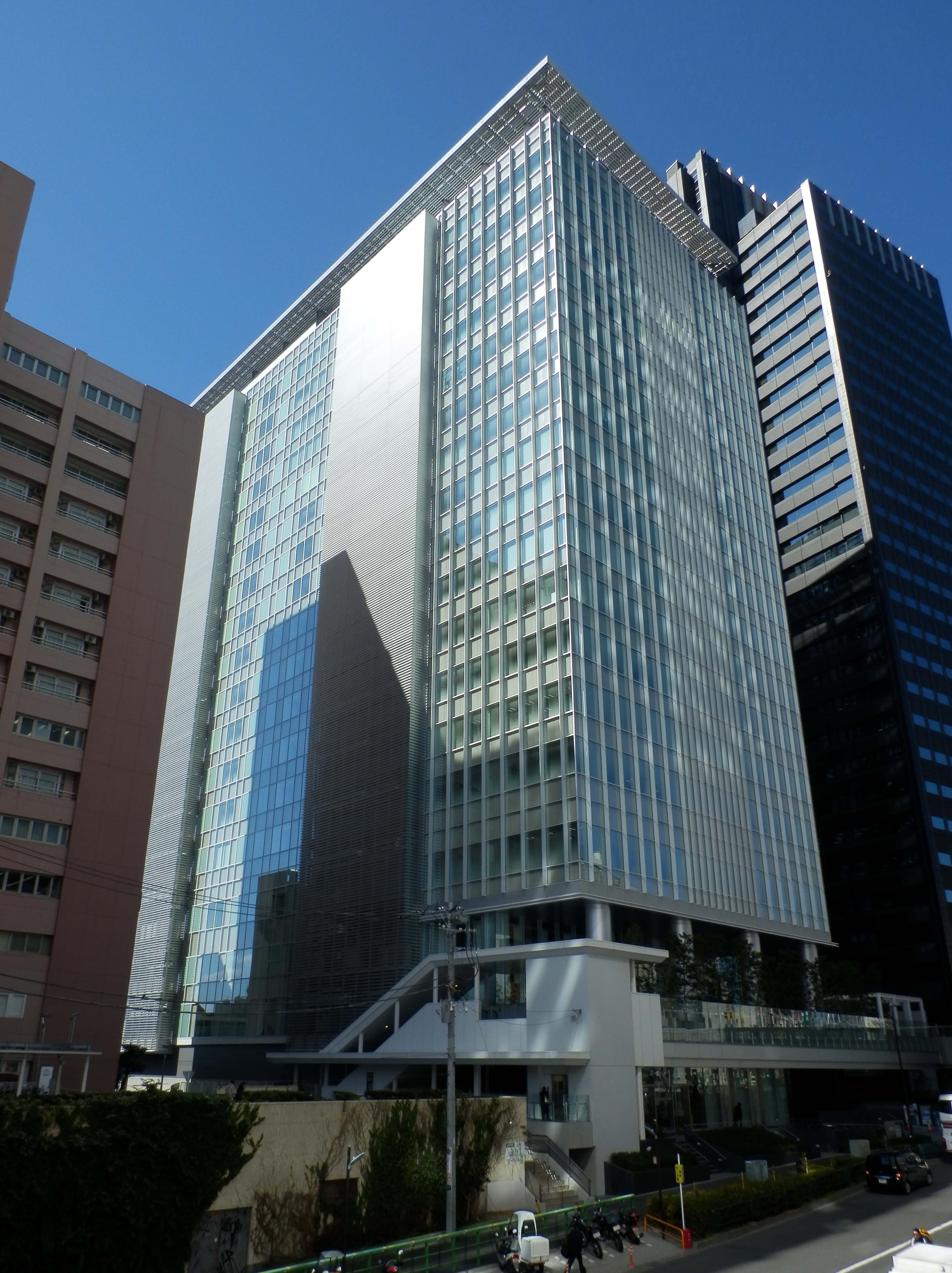 JR Minami-Shinjuku Building (Office building in Tokyo, Japan)